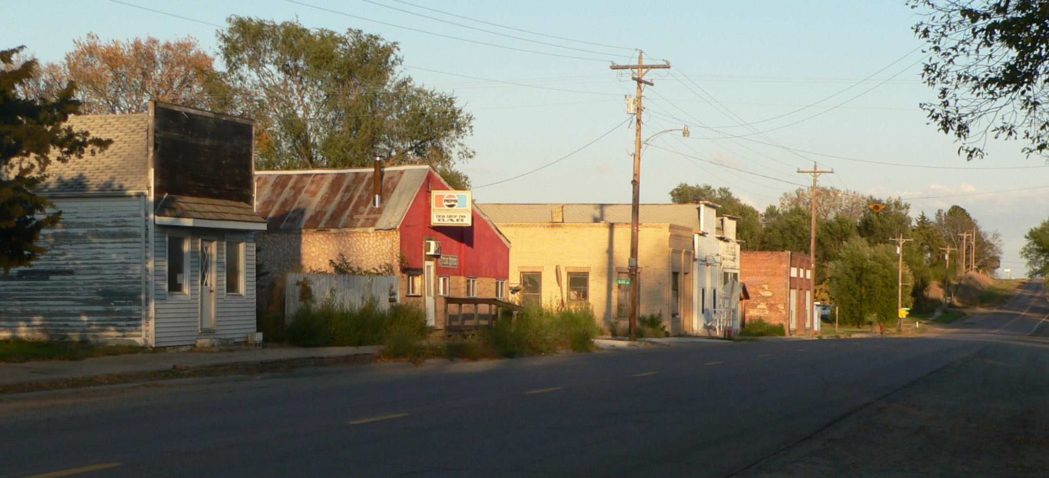 Downtown Verdel, Nebraska: north side of Main Street (Nebraska Highway 12) looking northeast from about Peyton Avenue.